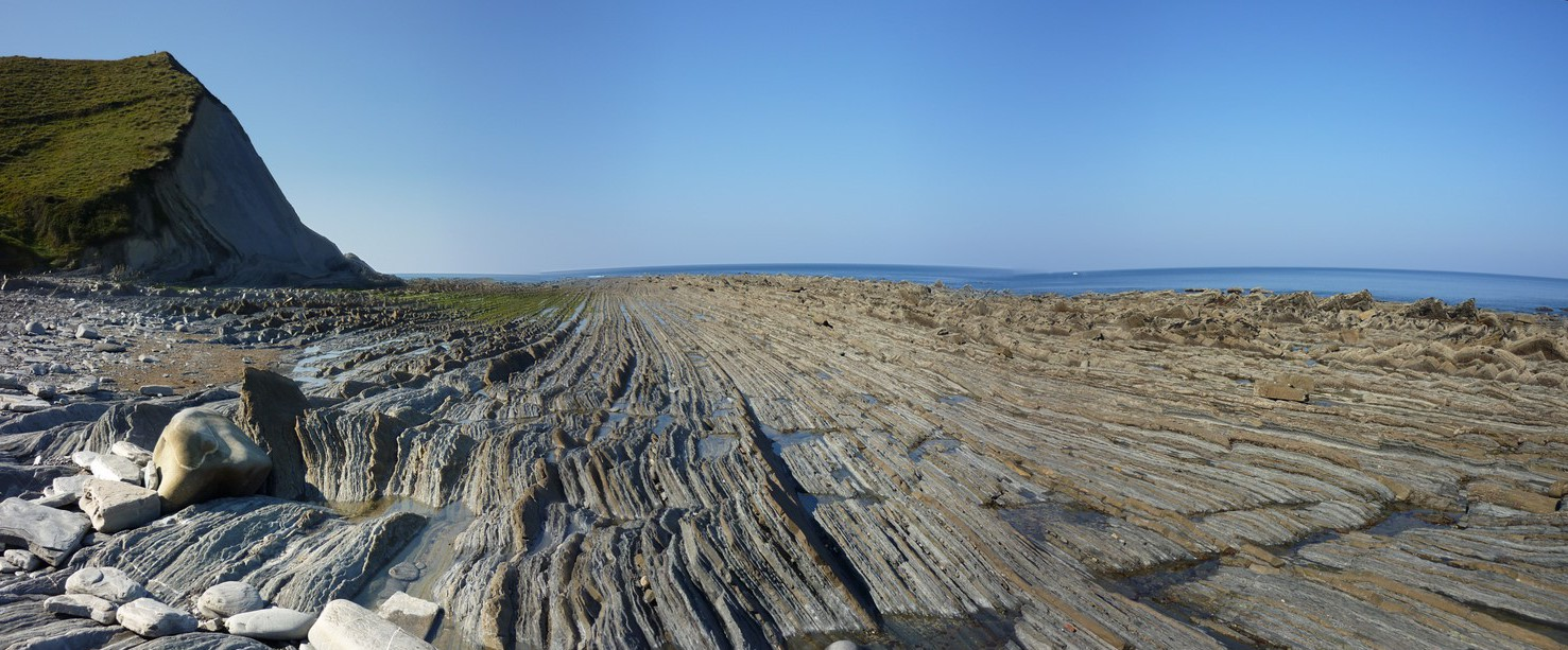 Sakoneta beach in Itziar, Deba, Gipuzkoa.